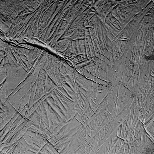 Enceladus in closeup, image from Cassini 16/2/05